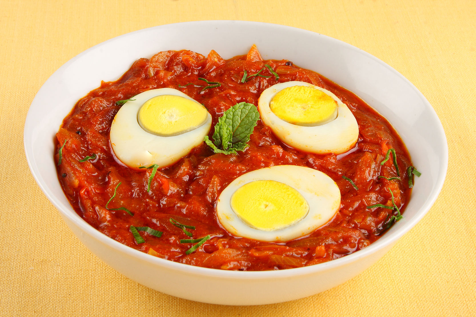 Egg Roast is a delicious spicy preparation of the eggs in a delicious onion and tomato based gravy.